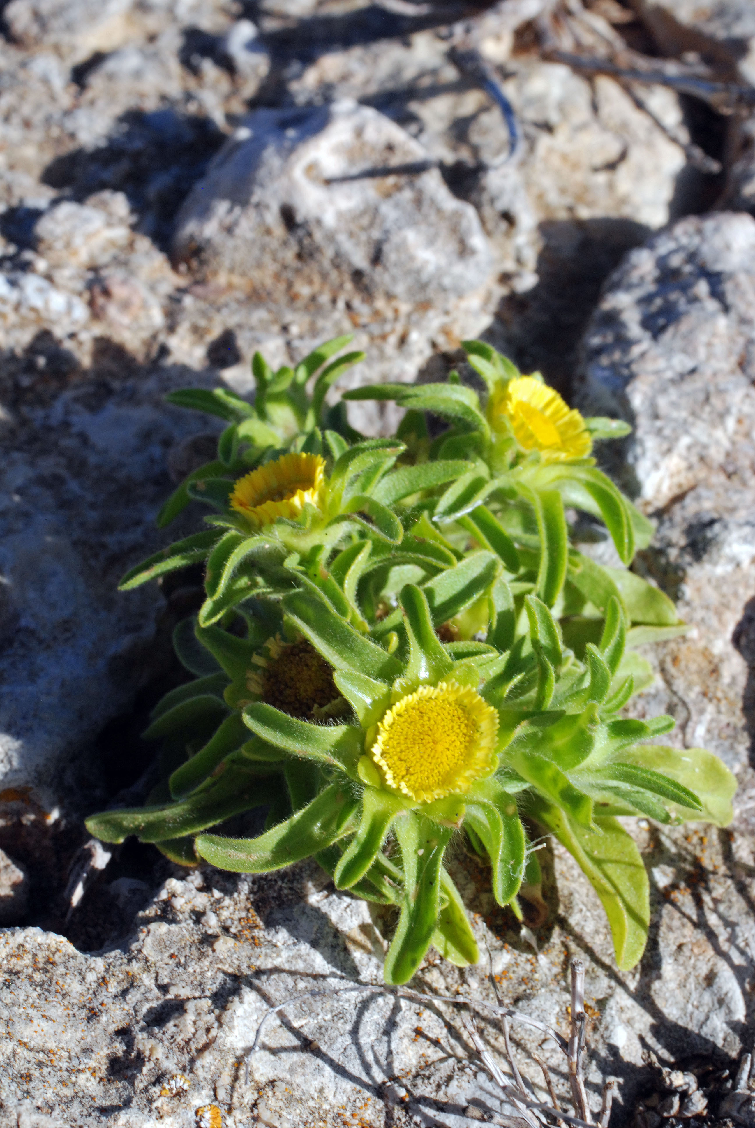 Nauplius aquaticus, Cap Blanc, San Antonio, Ibiza